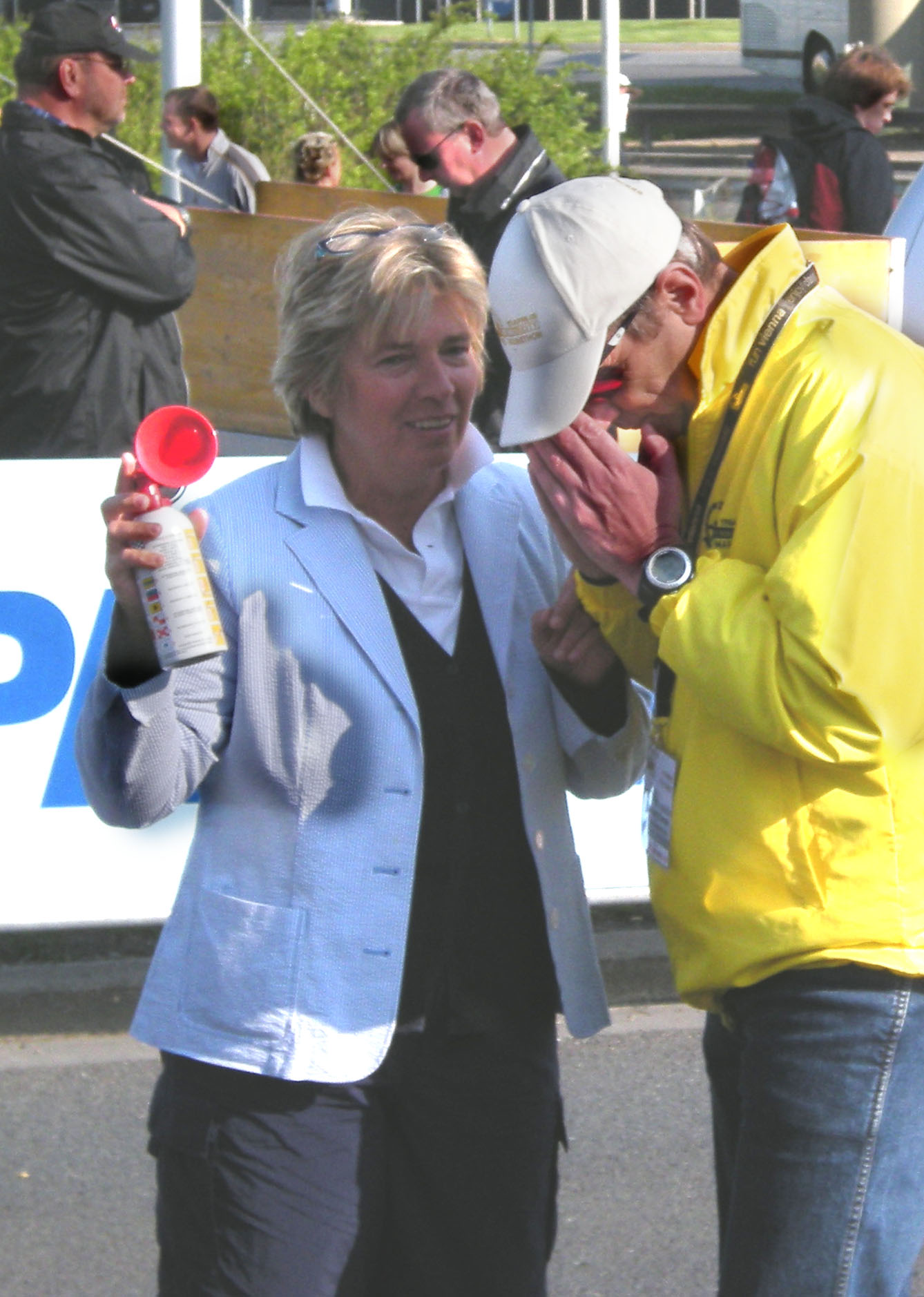 Category:Vienna City Marathon 2008 Austrian politician and Vienna'S Deputy Mayor Grete Laska testing the starting hooter. Note: My camera's time setting was about 1h4min late to local time.